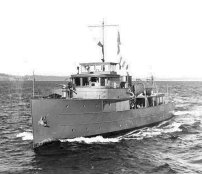 Royal Canadian Navy patrol vessel HMCS Cougar (Z15)